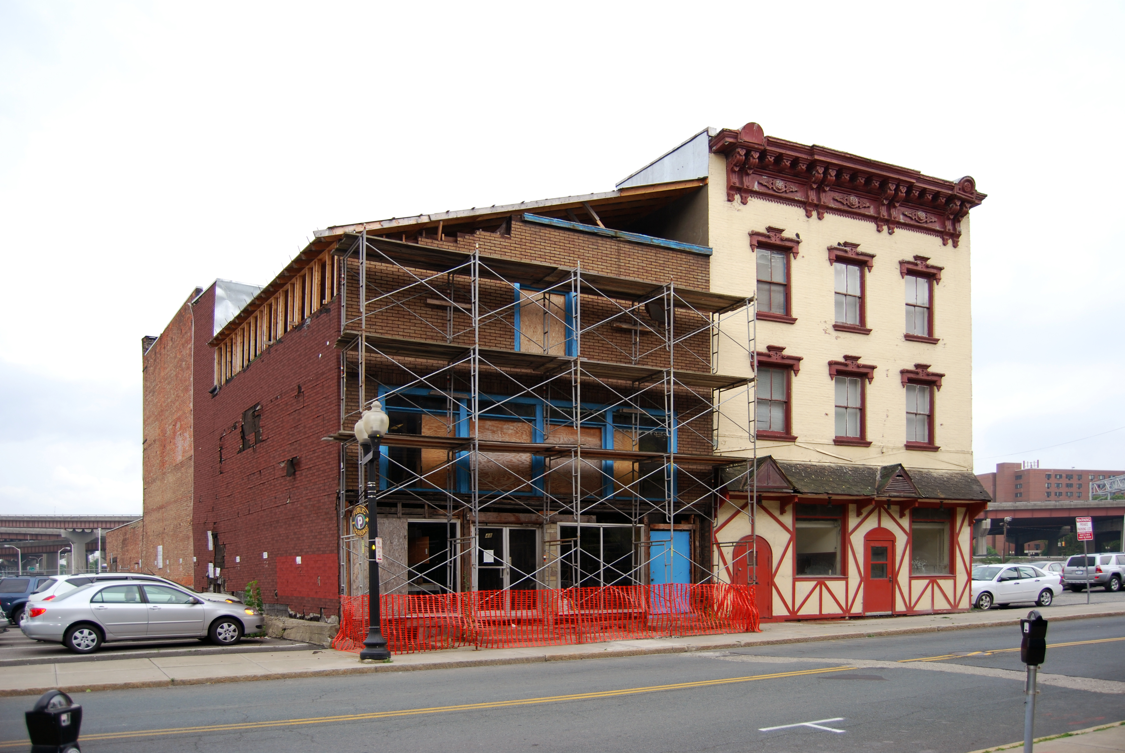 48 and 50 Hudson Avenue in Albany, New York, United States. Number 48 is possibly the oldest building in the city.